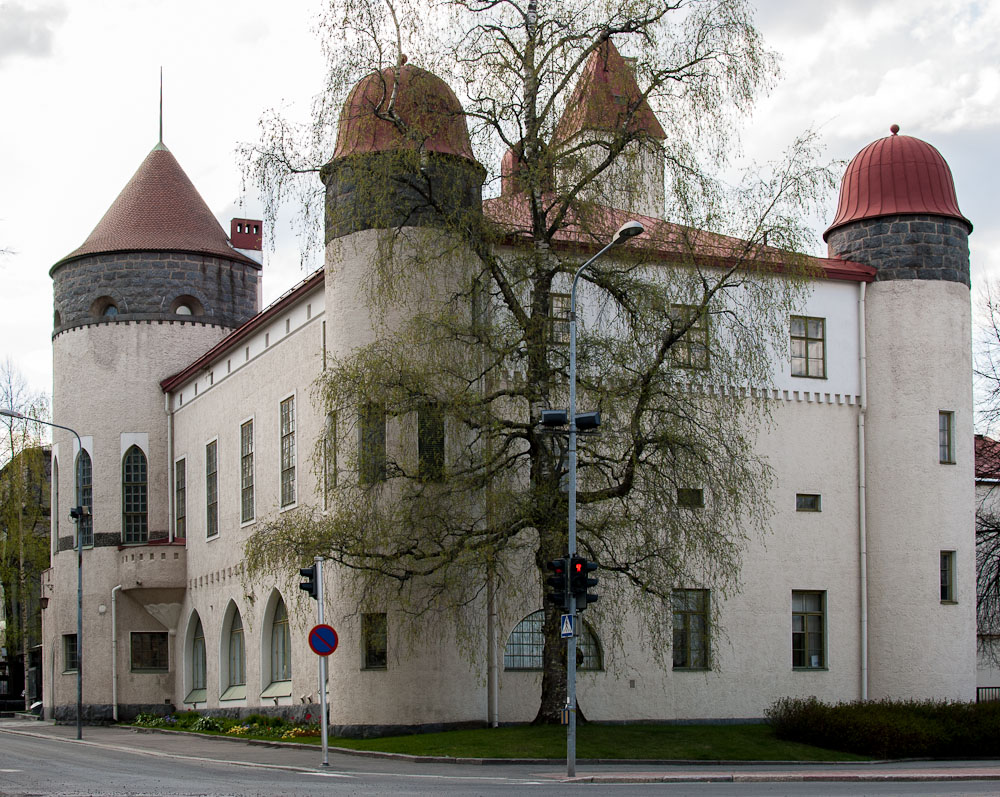 Kuopio Museum in Kuopio, Finland. The art nouveau style building was designed by architect J. V. Strömberg and completed in 1907.